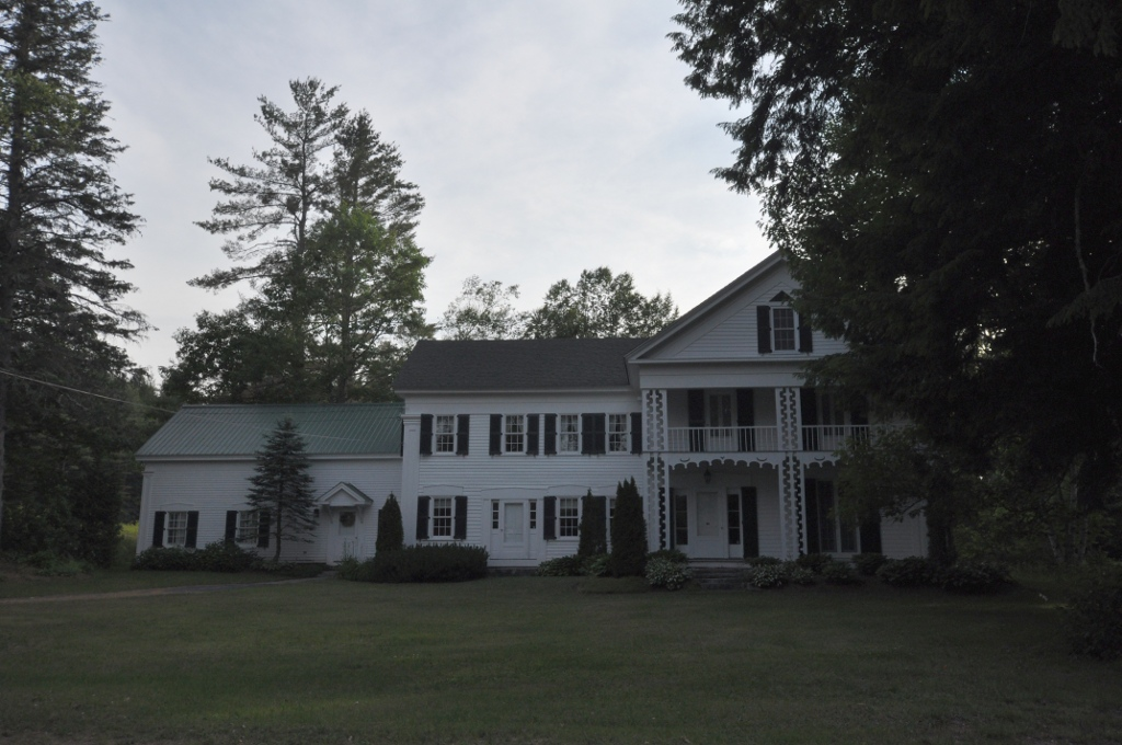 Foster Family Home, Newry, Maine